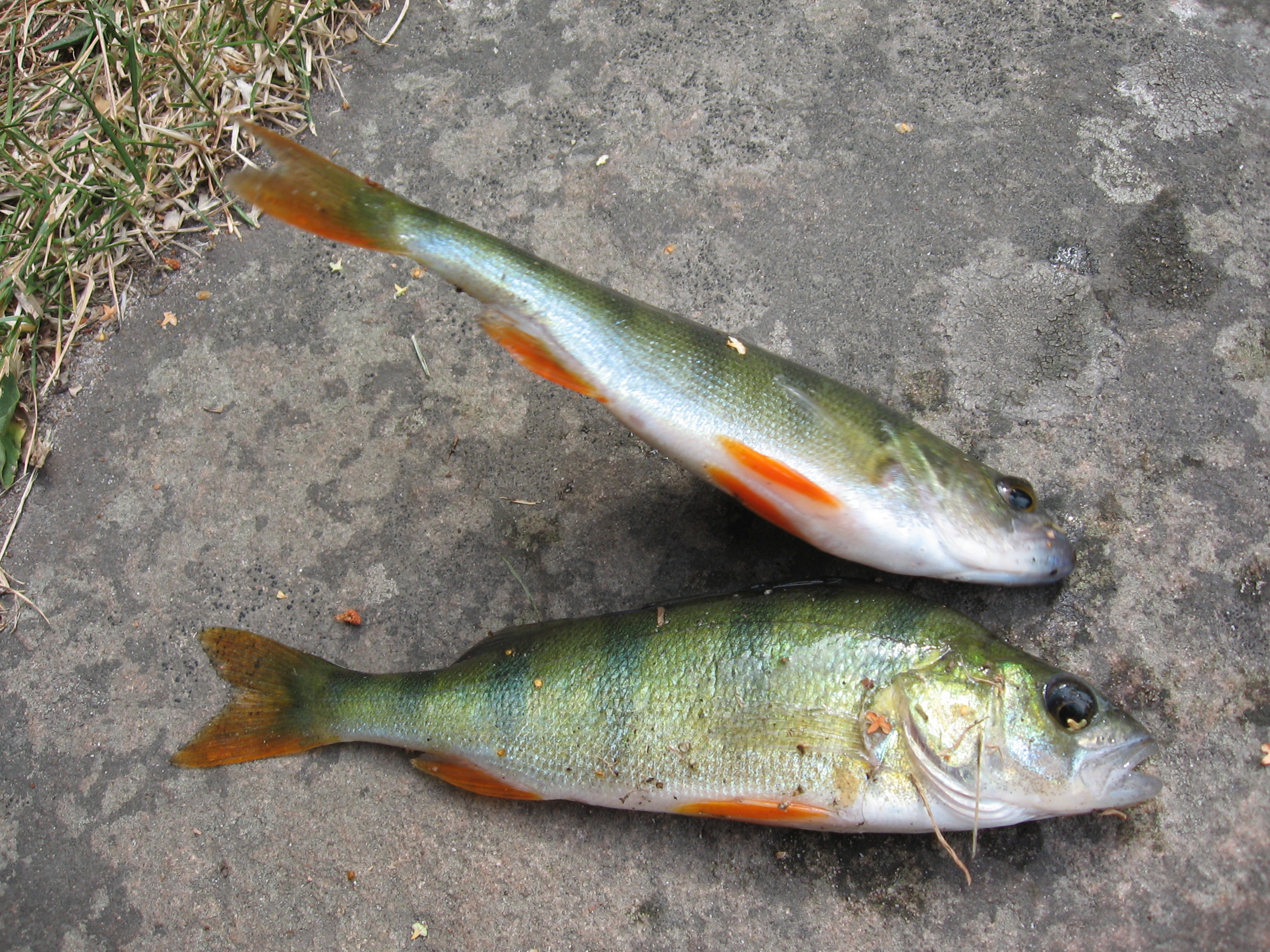 Two rather small European perches (Perca fluviatilis)